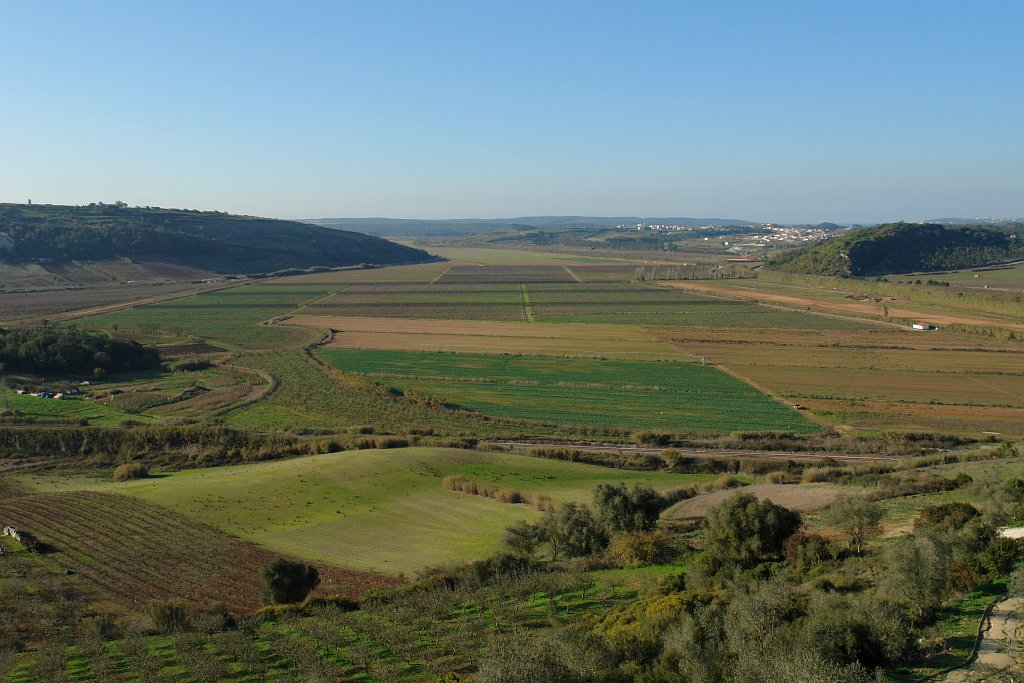 Photography by Osvaldo Gago (